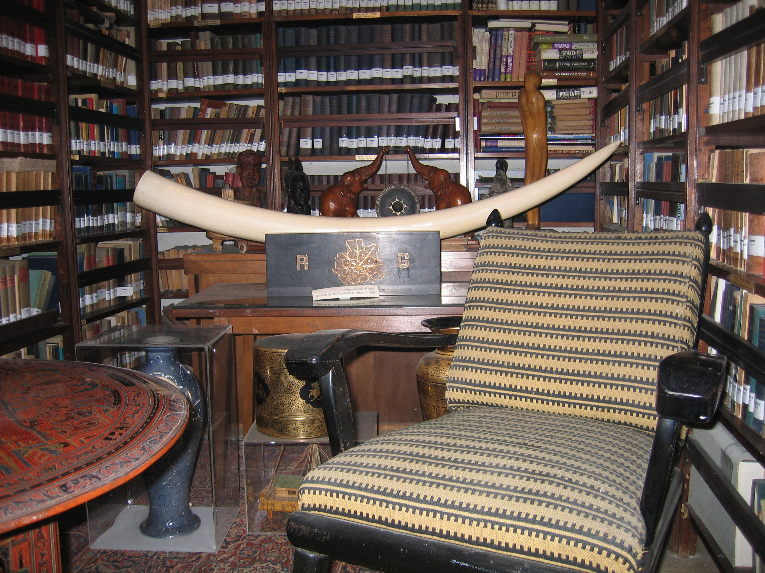 David Ben Gurion's House at Tel Aviv-Yaffo